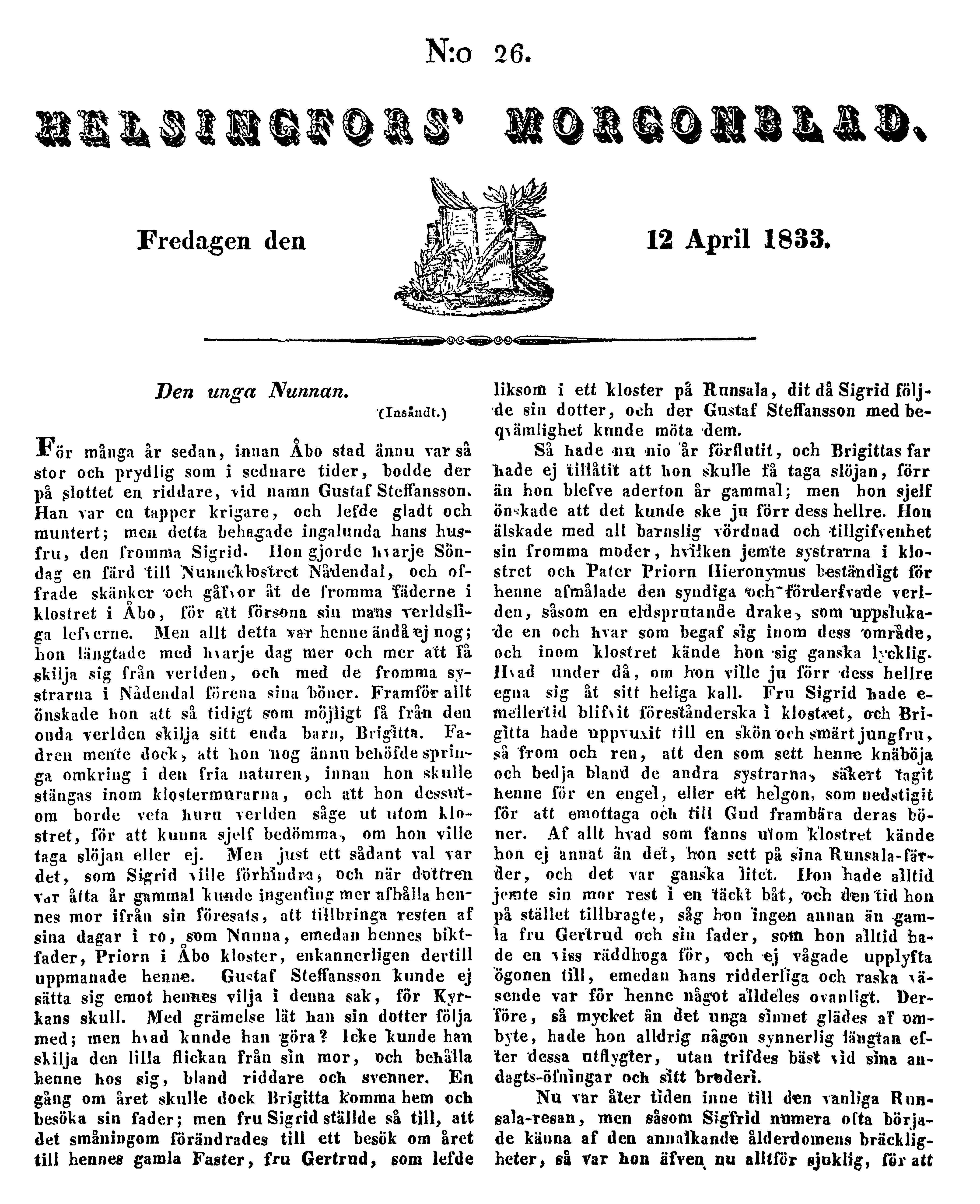 The first page of the short story Den unga nunnan (The young nun) by Fredrika Runeberg, published in the Finnish newspaper Helsinginfors Morgonblad on the 12th of April 1833.